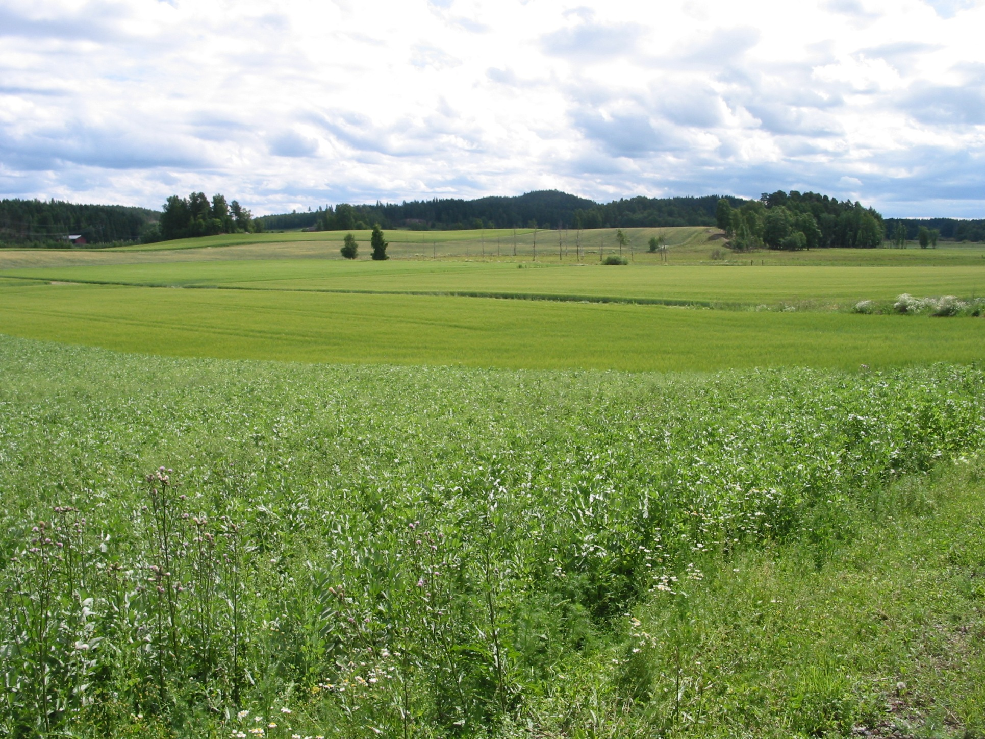 A field in Nummi-Pusula, north of Savijärvi Lake. The lake is in the horizon to the right. In the foreground Cirsium helenioides, then Vicia Faba nad on the far side of the field road might be Triticum aestivum